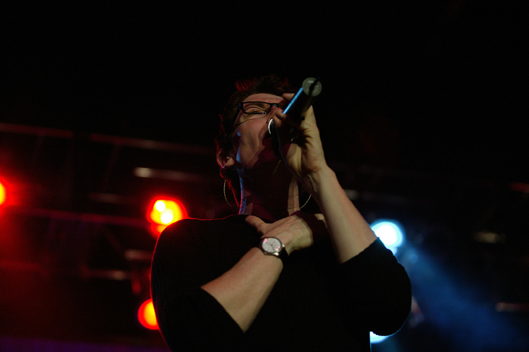 Richard Butler of the Psychedelic Furs in Albuquerque, NM.